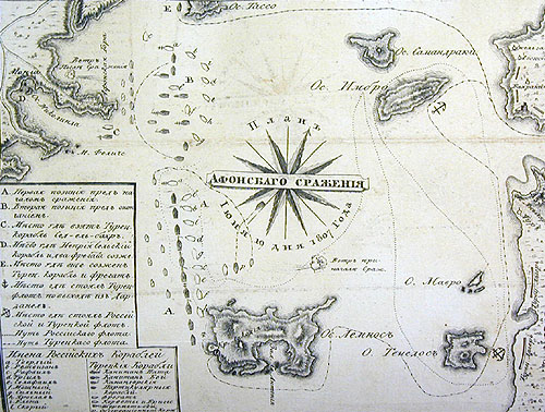 This is Battle of Athos 1807 map. This map was published in book of writer Bronevskoy A.B. «Letters of russian navy officer» («Записки русского офицера») in 1818.